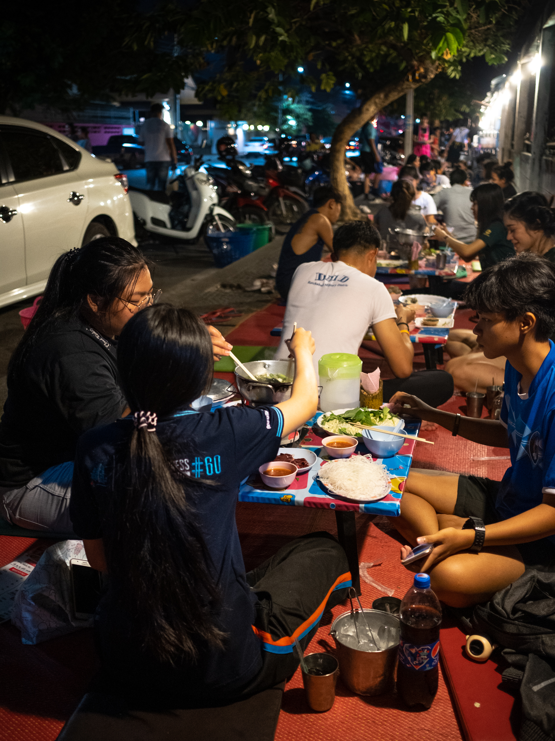 This Suki (Thai script: สุกี้) stall opens up in the evenings on one of the streets of Korat, with the customers sitting on mats on the side walk.